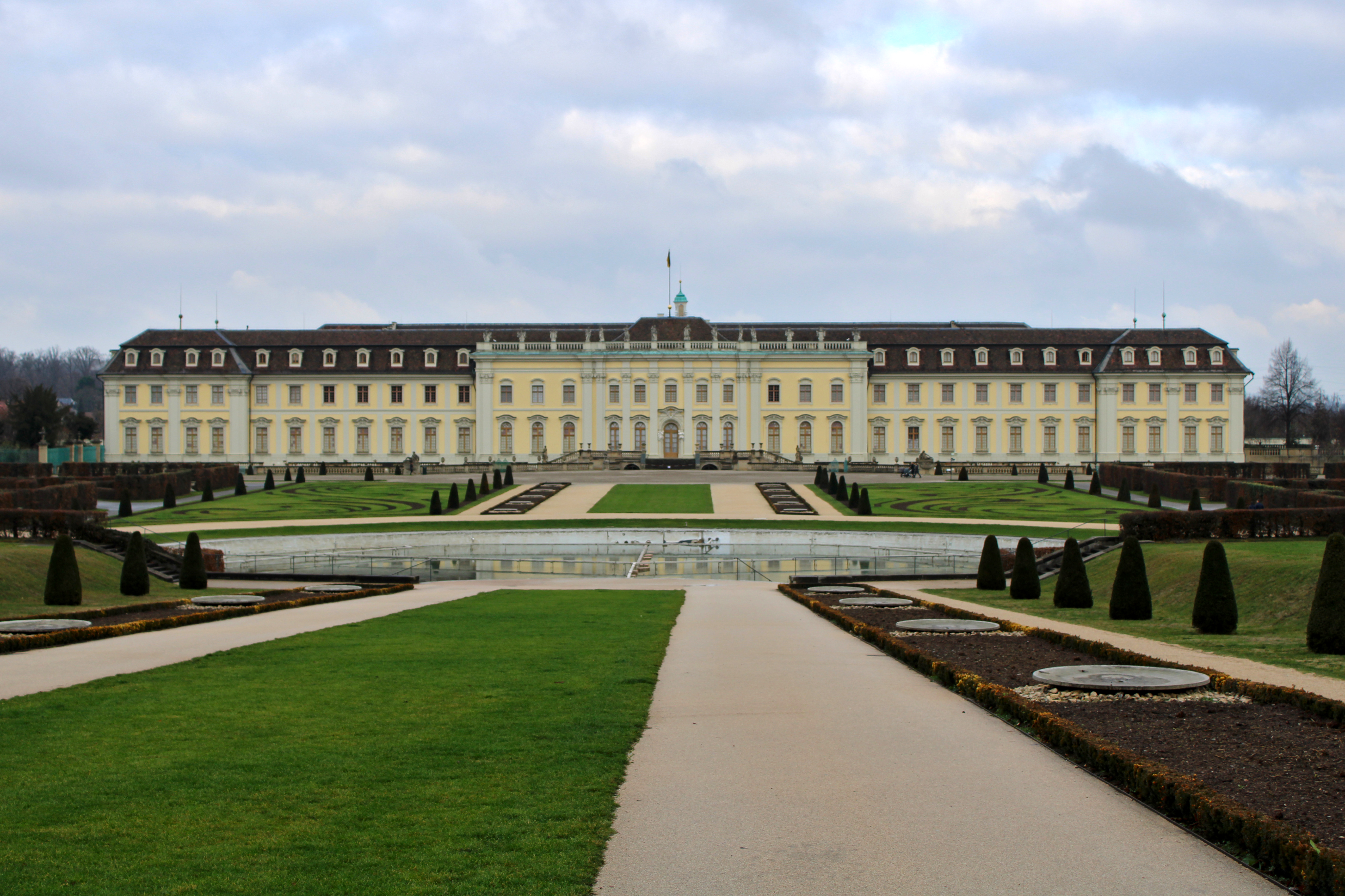 Ludwigsburg Palace in December 2018